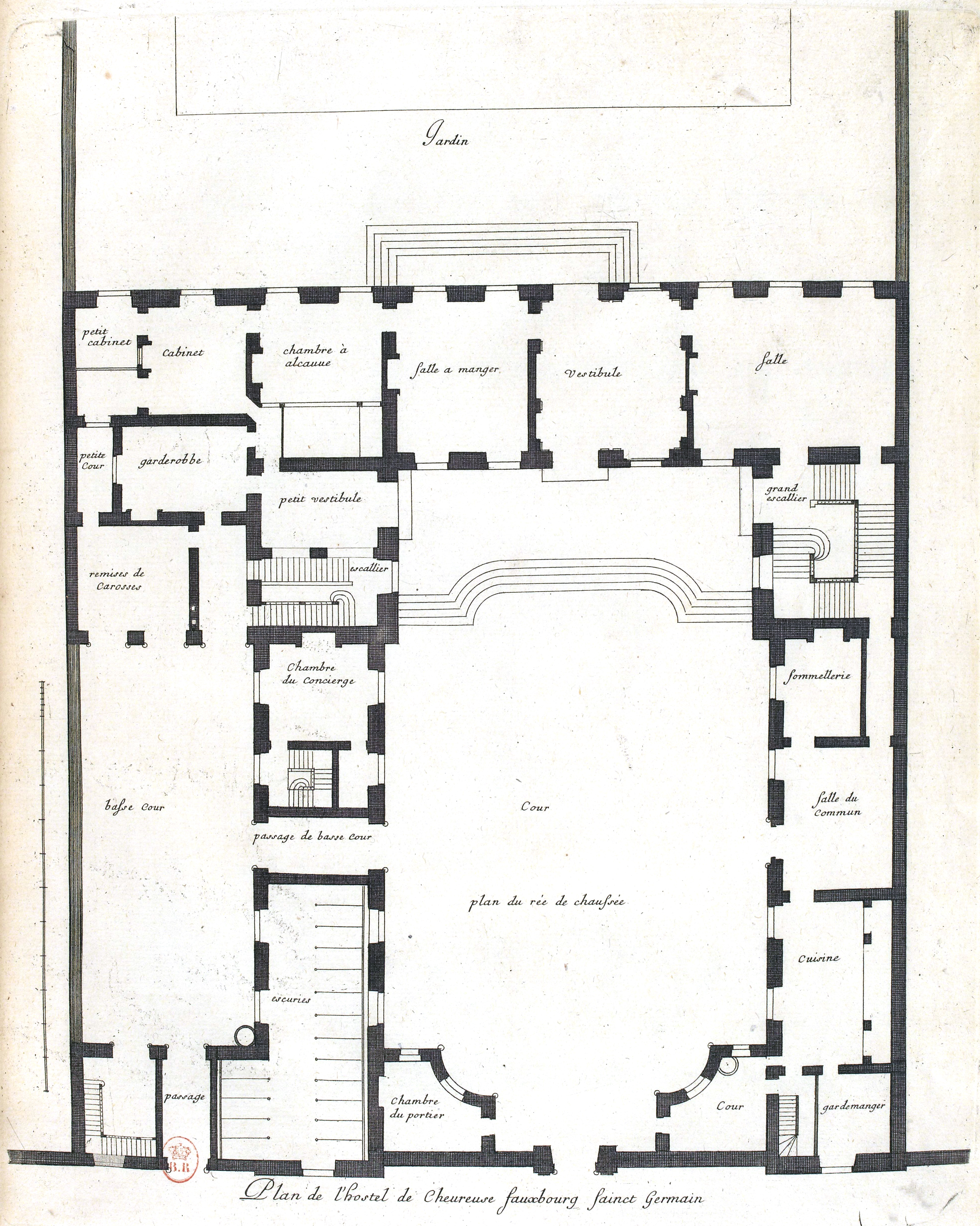 Hôtel de Chevreuse in Paris. Design for the ground floor. Plate from Jean Marot's L'Architecture française.